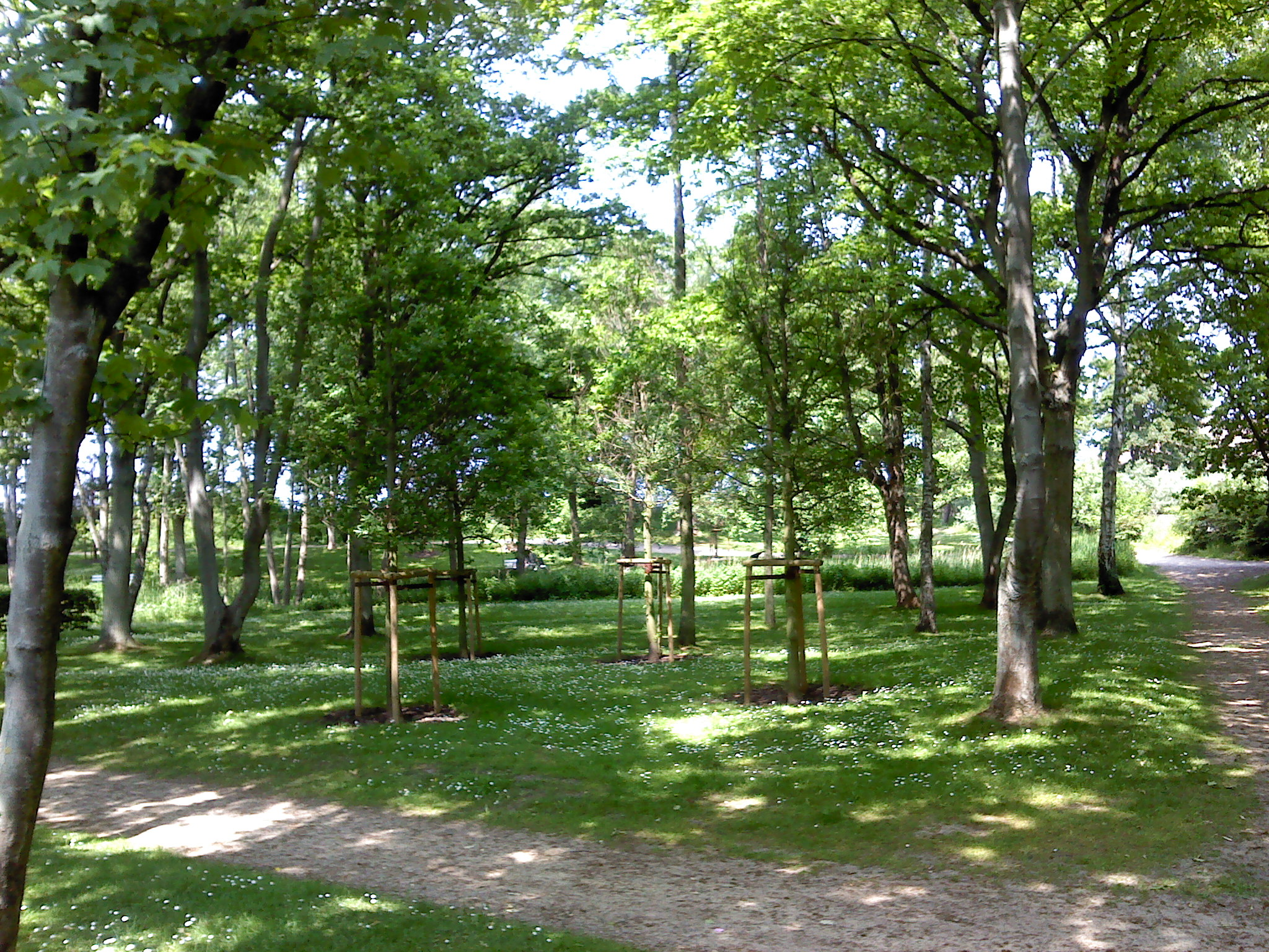 Park An der Acht - Niendorf Harbour